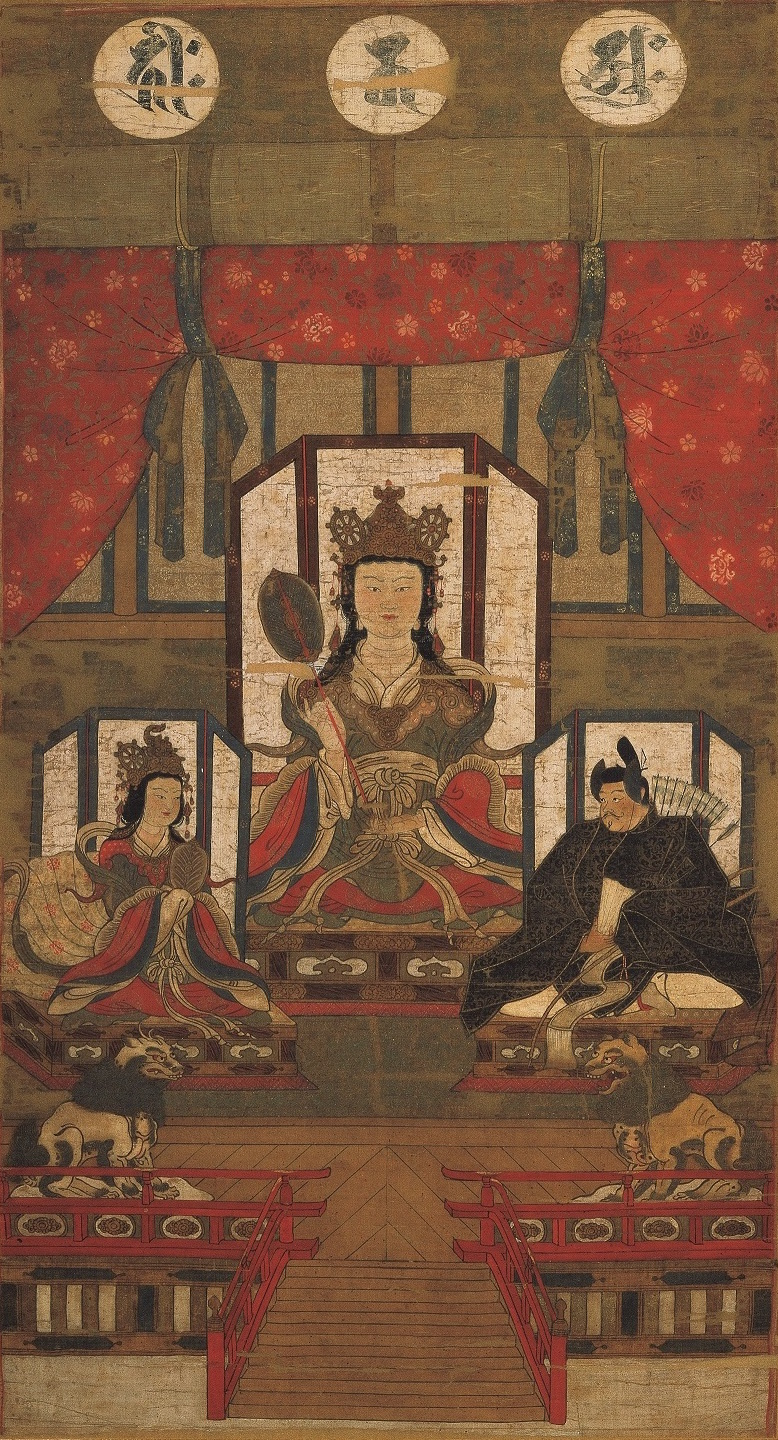 Hakusan Sansha Shinzo, Shirayama Hime Jinja, Hakusan, Ishikawa, Japan